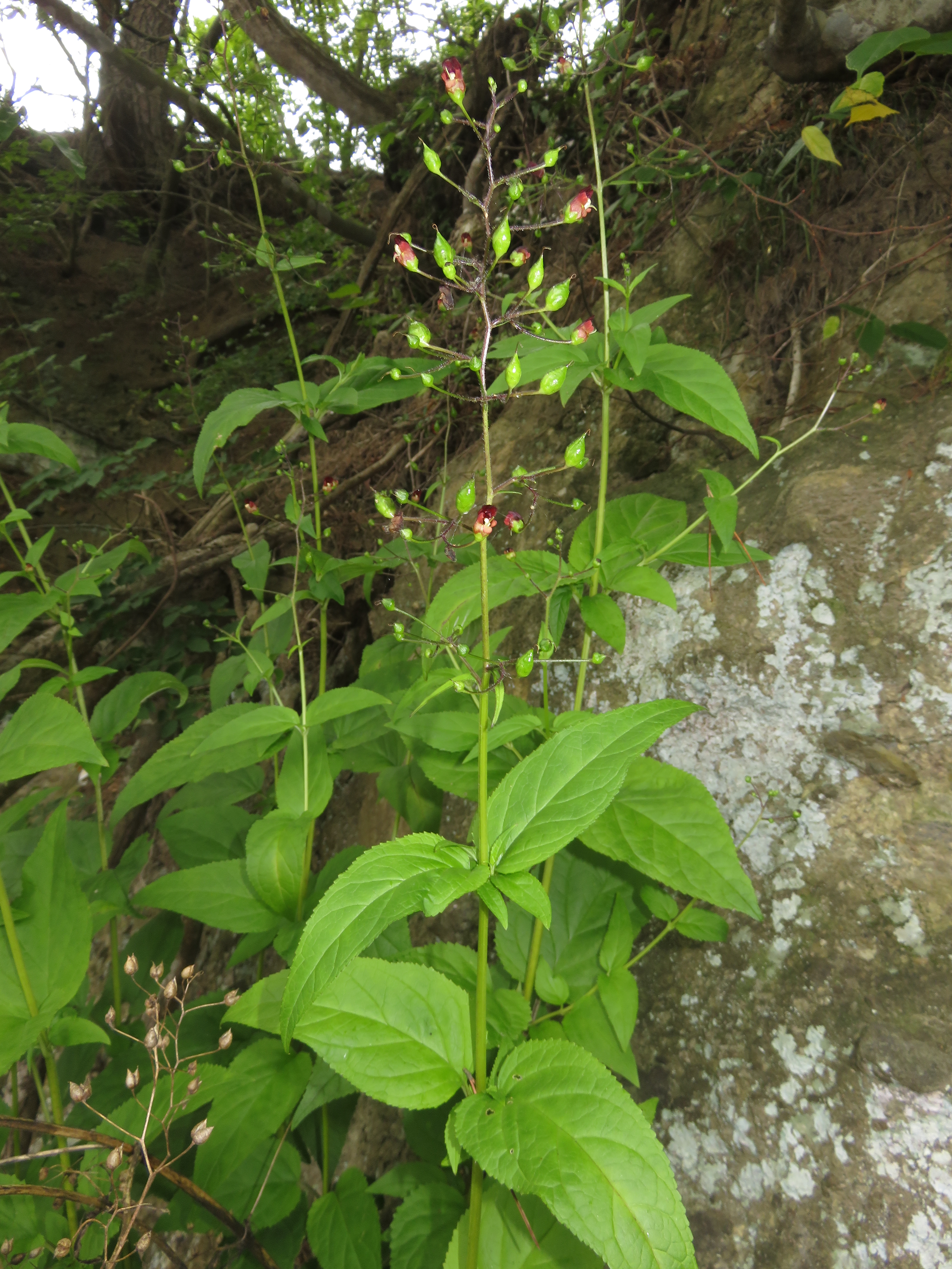 Scrophularia grayanoides, East area, Miyagi pref., Japan